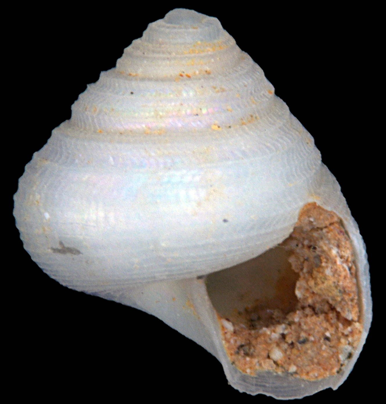 Apertural view of an empty shell of Halystina umberlee, from the Museum of Zoology of the University of São Paulo collection (MZSP 116292)